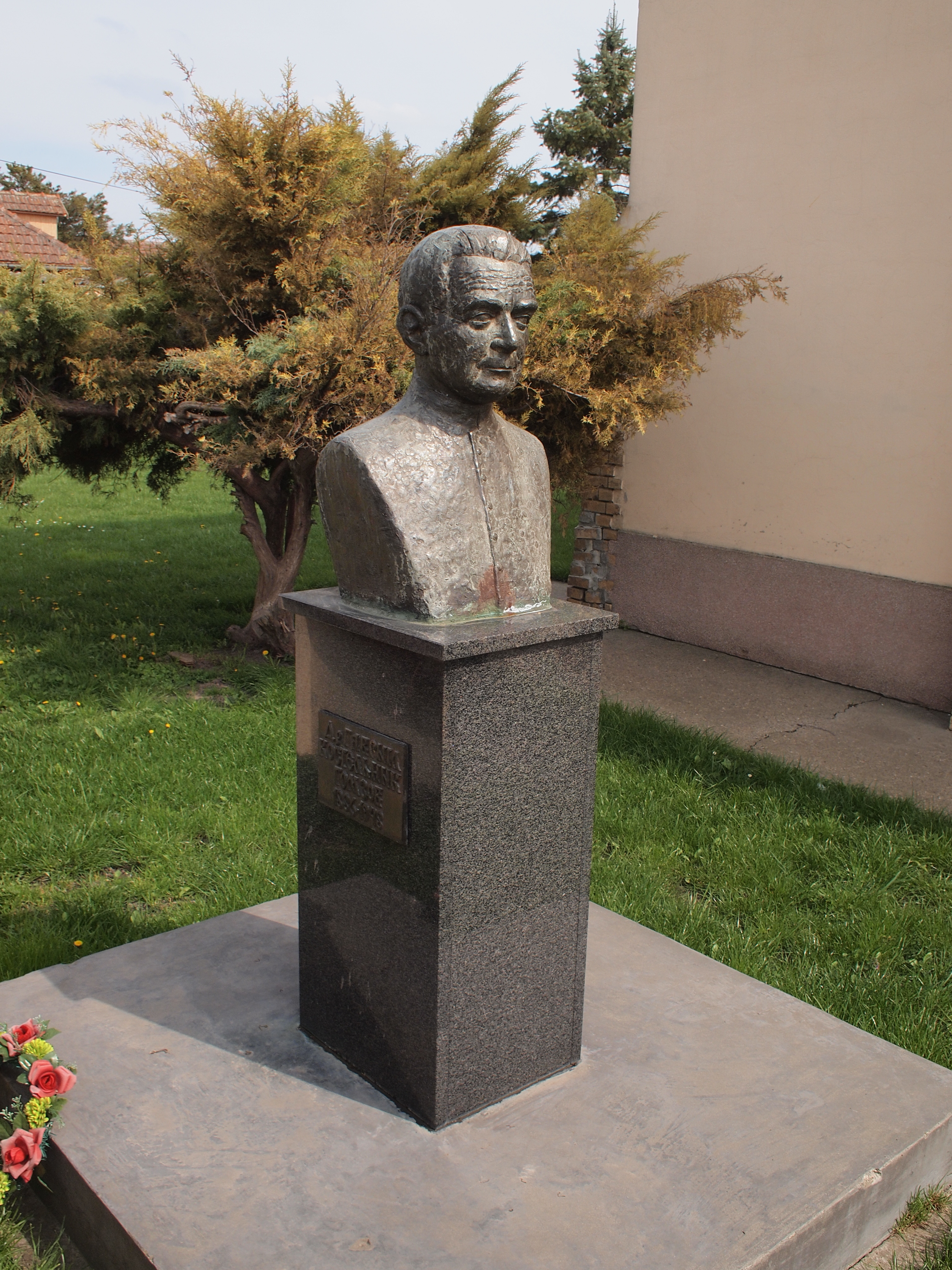 Ruski Krstur, Vojvodina, Serbia. (Time in EET.)